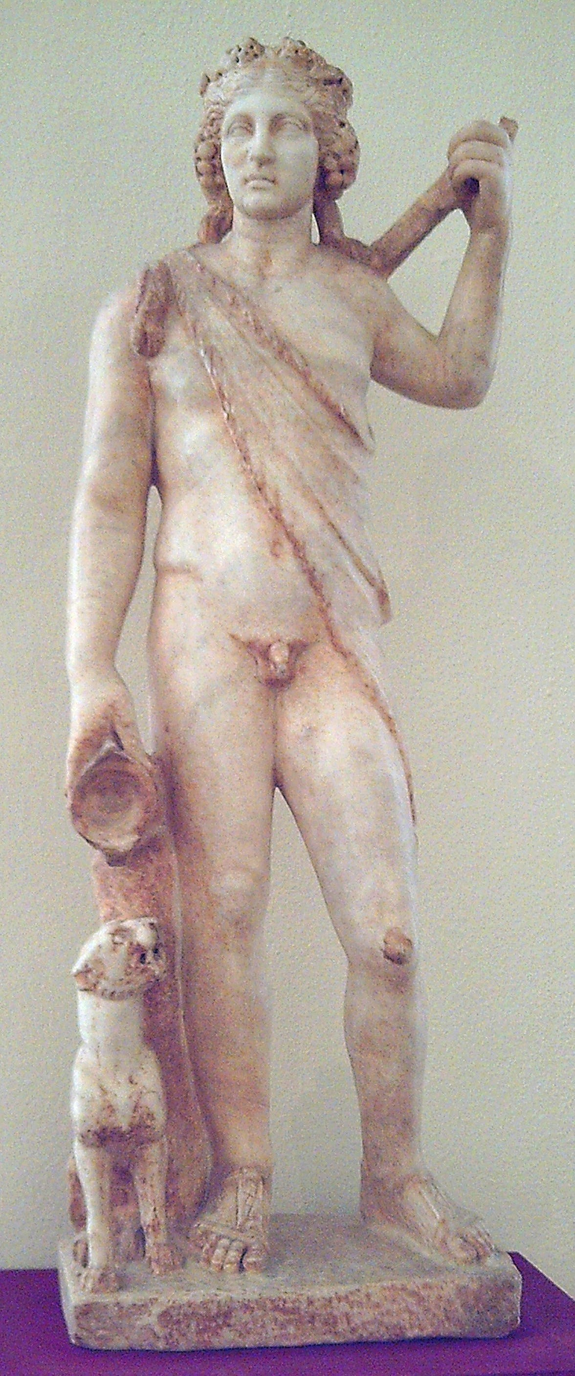 Roman statue of Bacchus. The god shows his main attributes: crowned with grape bunches; the Panther skin over his right shoulder; he spills the sacred wine from a kantaros on the Panther; and his left arm probably held up a grape bunch.